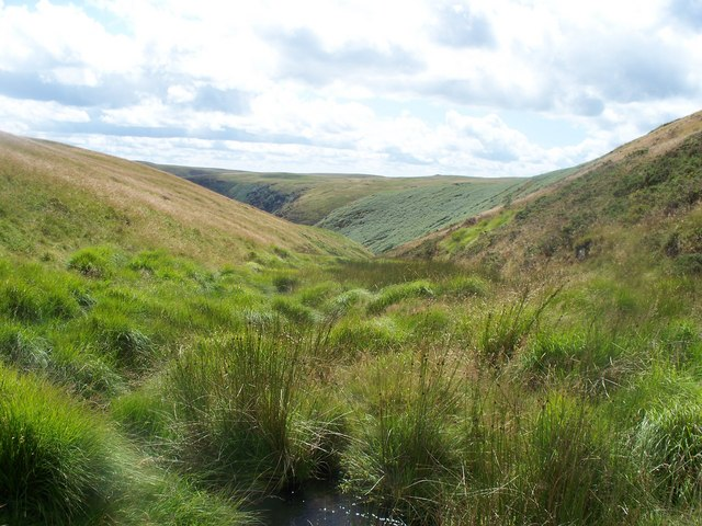 Head of a valley on Mynydd Mallaen The path crosses a stream near its source. The stream eventually flows into the Afon Gwenlais. This picture is taken from near the head of one of the many hidden valleys on Mynydd Mallaen.